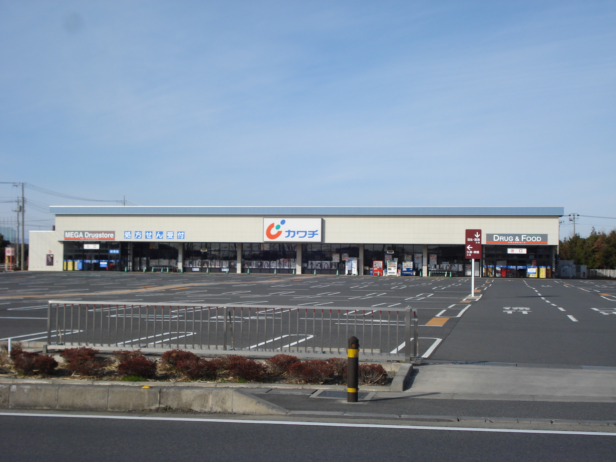 Drug store Cawachi Kazo store in the Vivamall Kazo, Kazo City, Saitama Prefecture, Japan